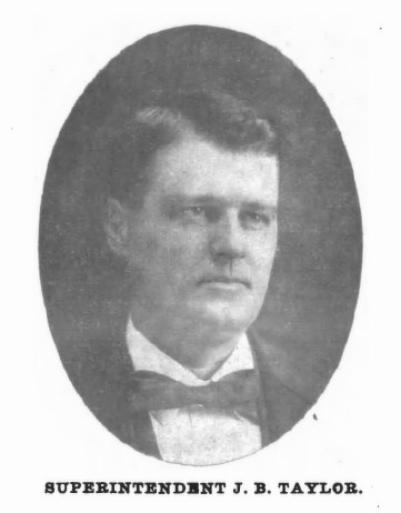 J.B. Taylor former superintendent Middlesboro Kentucky Schools